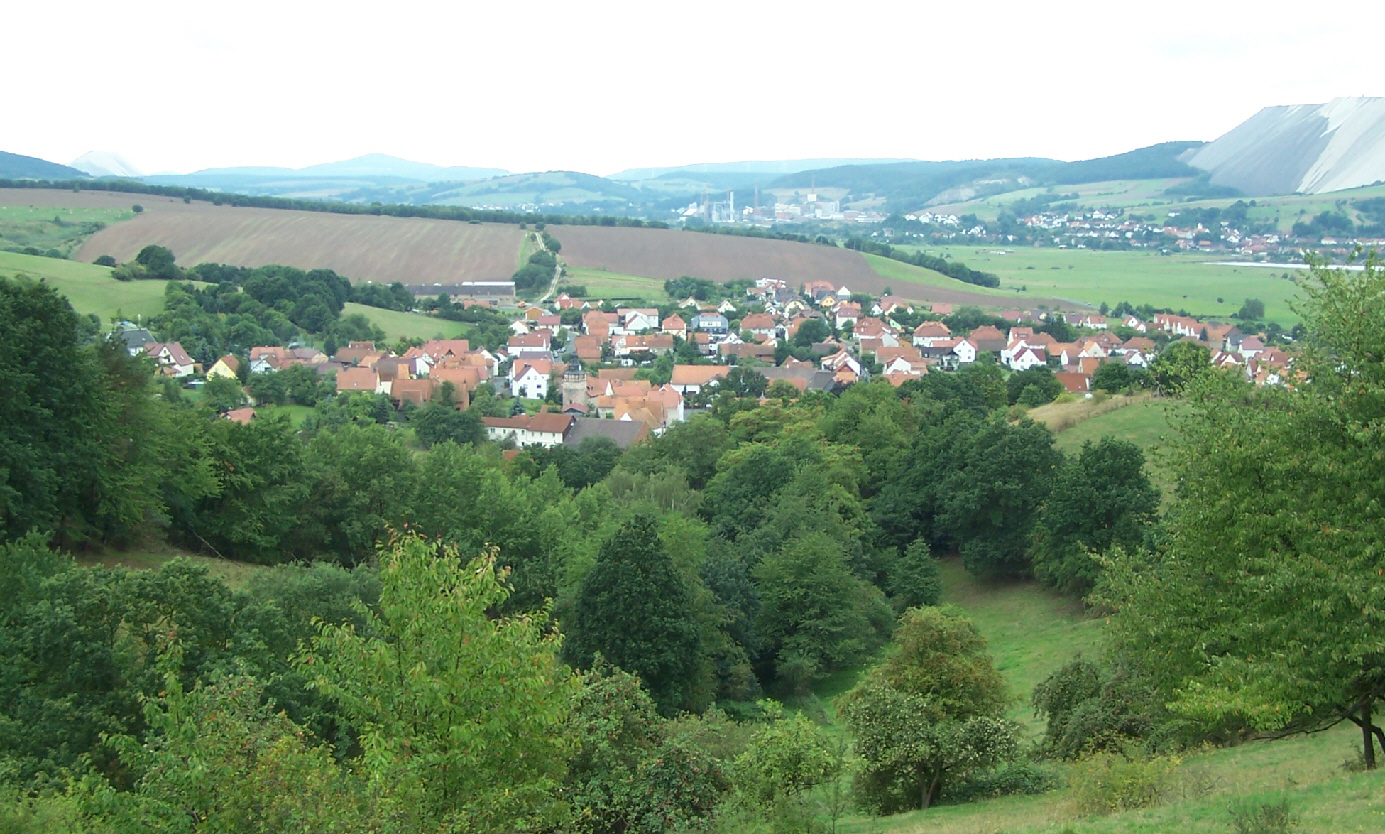 Dippach - panorama view.